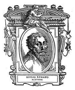 Illustratio from "Le Vite" by Giorgio Vasari, edition of 1568. For the artist portrayed see filename